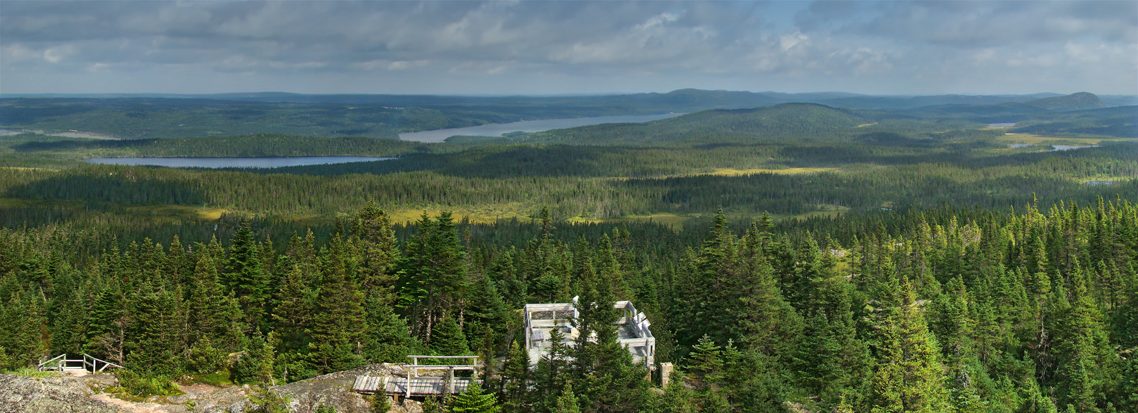 Terra Nova National Park, Central Newfoundland, Canada. Panorama seen from Ochre Hill, looking to the north. On the left lies the Rocky Pond. Behind it is the Newman Sound which opens to the Bonavista Bay further on the right.